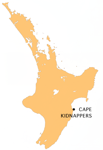 Location map of Cape Kidnappers, New Zealand